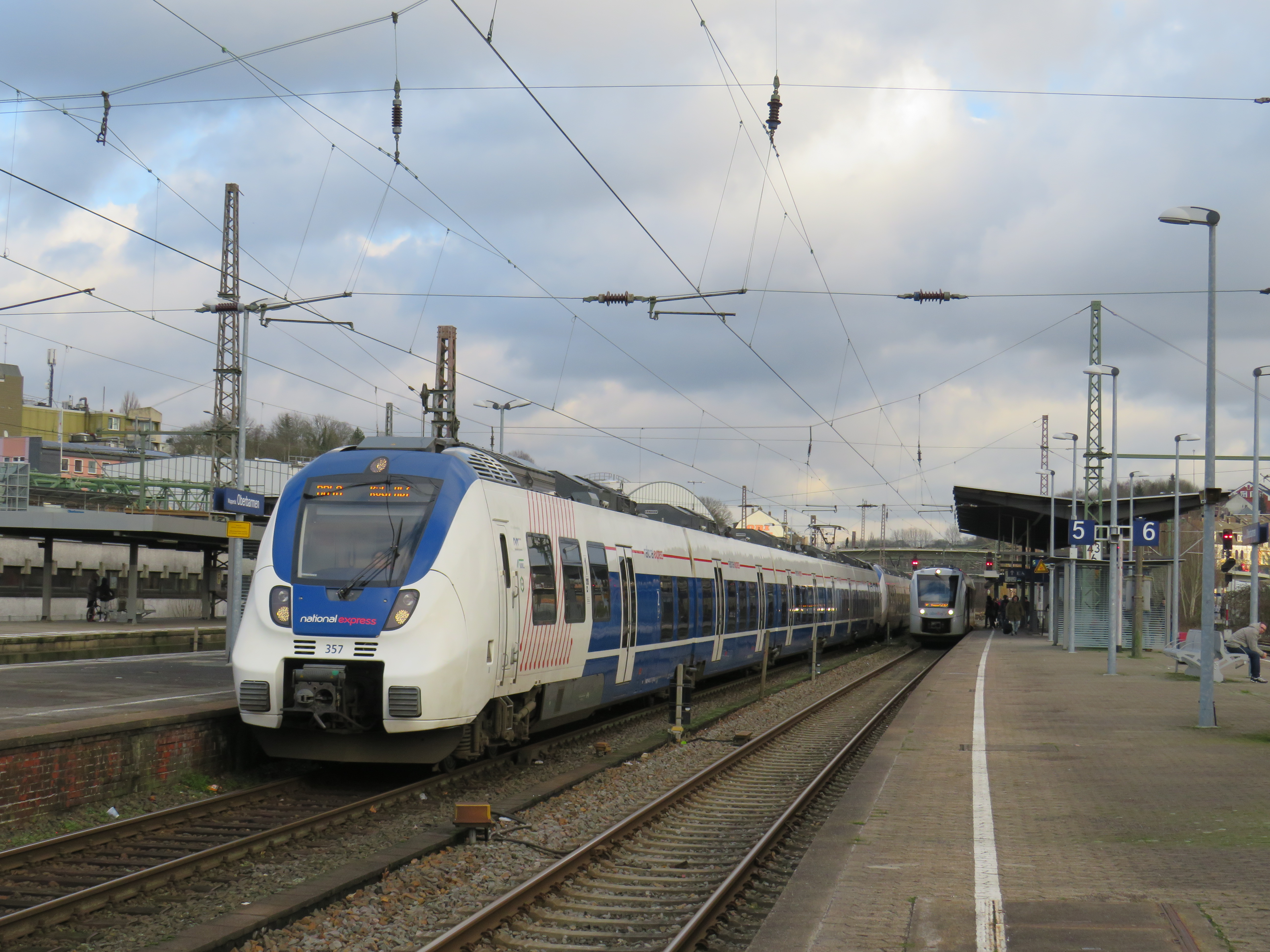 National Express train at Wuppertal-Oberbarmen station